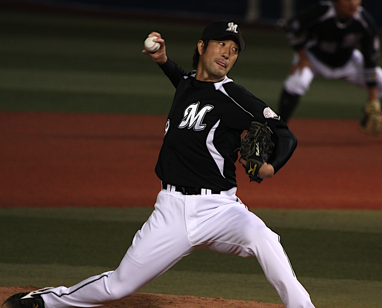 Yasuhiko Yabuta, pitcher of the Chiba Lotte Marines, at Yokohama Stadium.